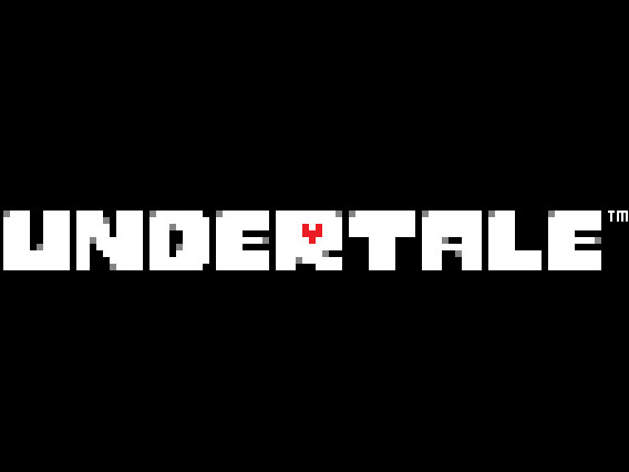 The logo for the video game Undertale